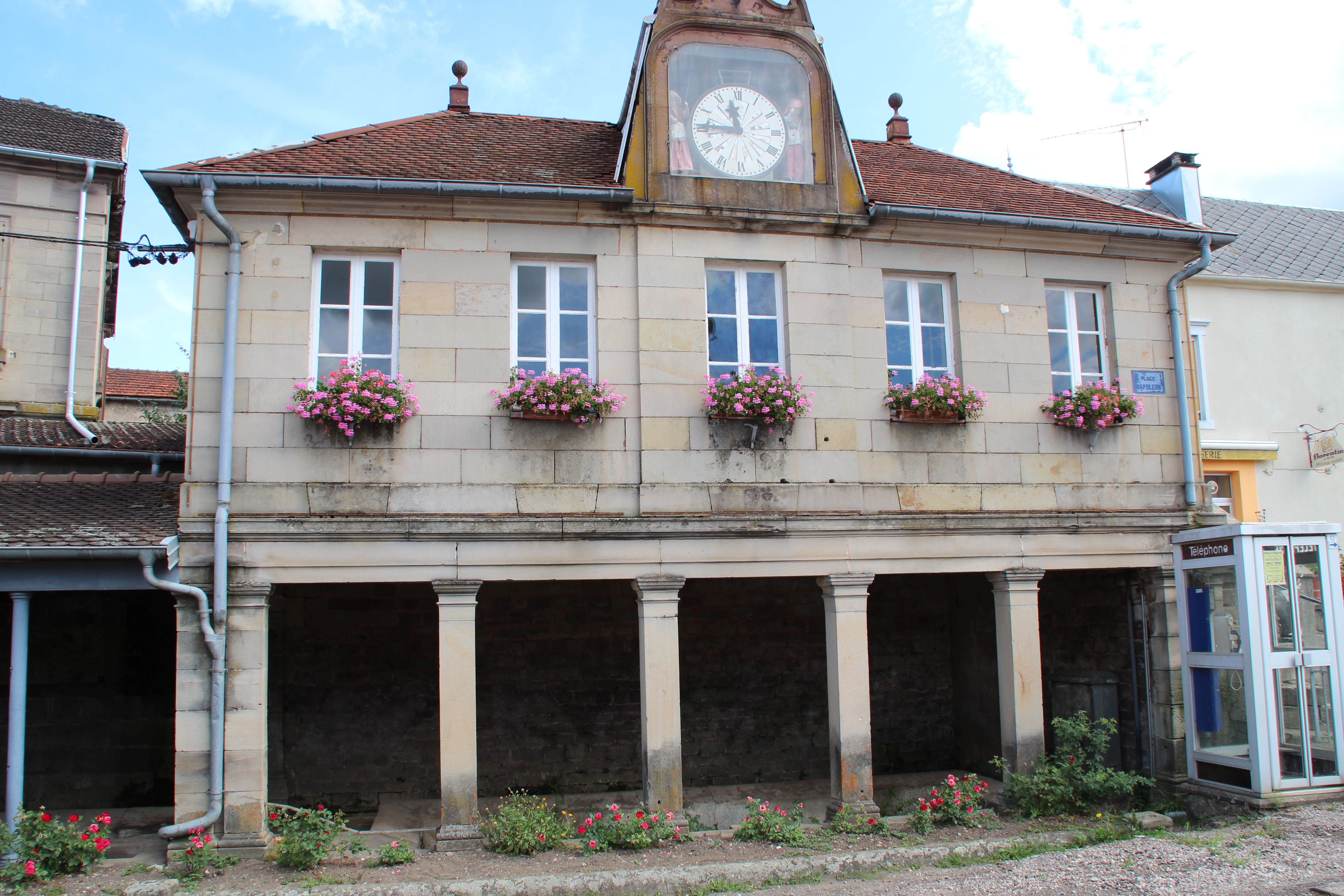 Town hall - wash house in Bouligney, France.